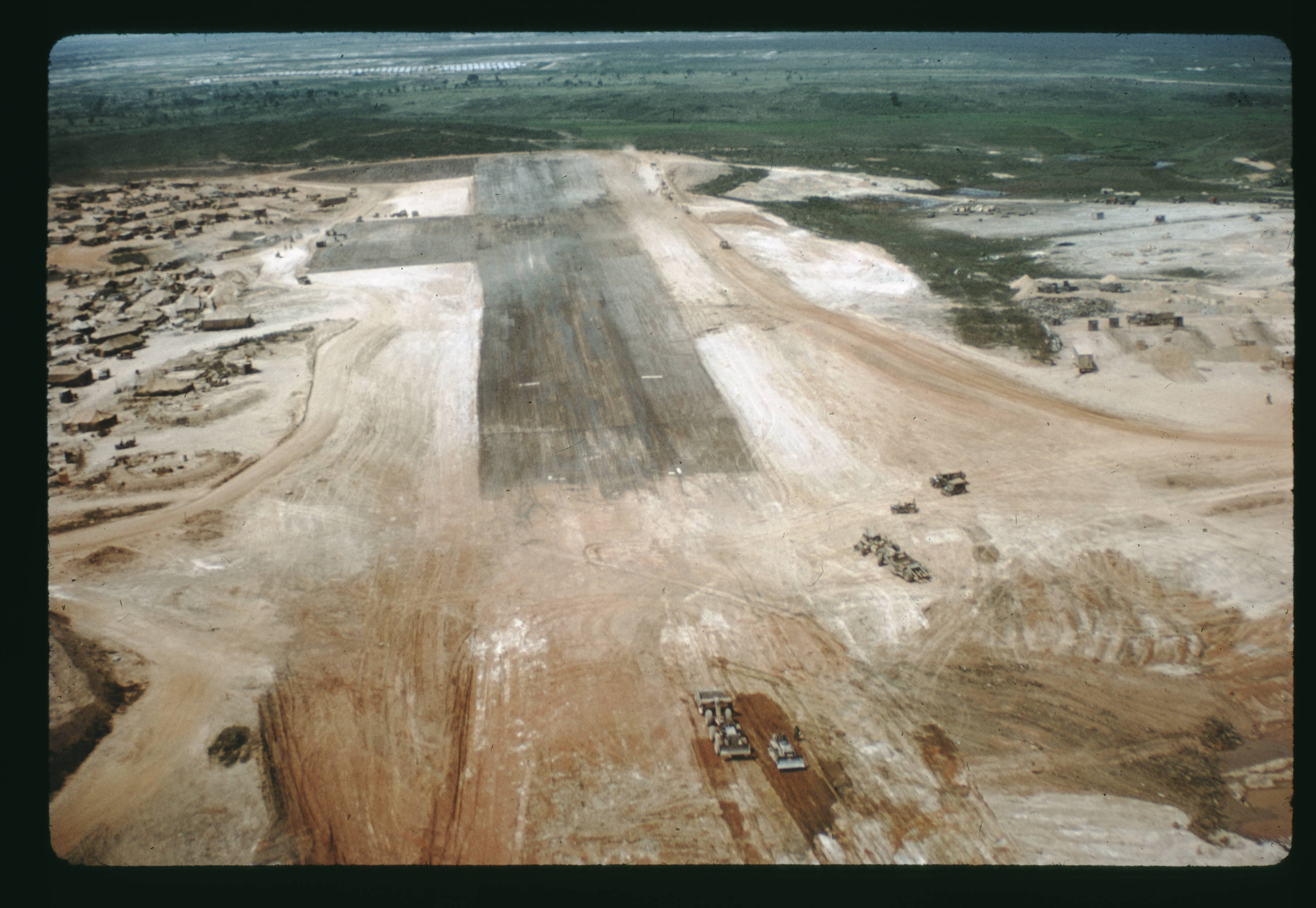 The 8th Engineer Battalion and a mobile construction battalion are upgrading the airfield at Camp Evans for C-130 capability.